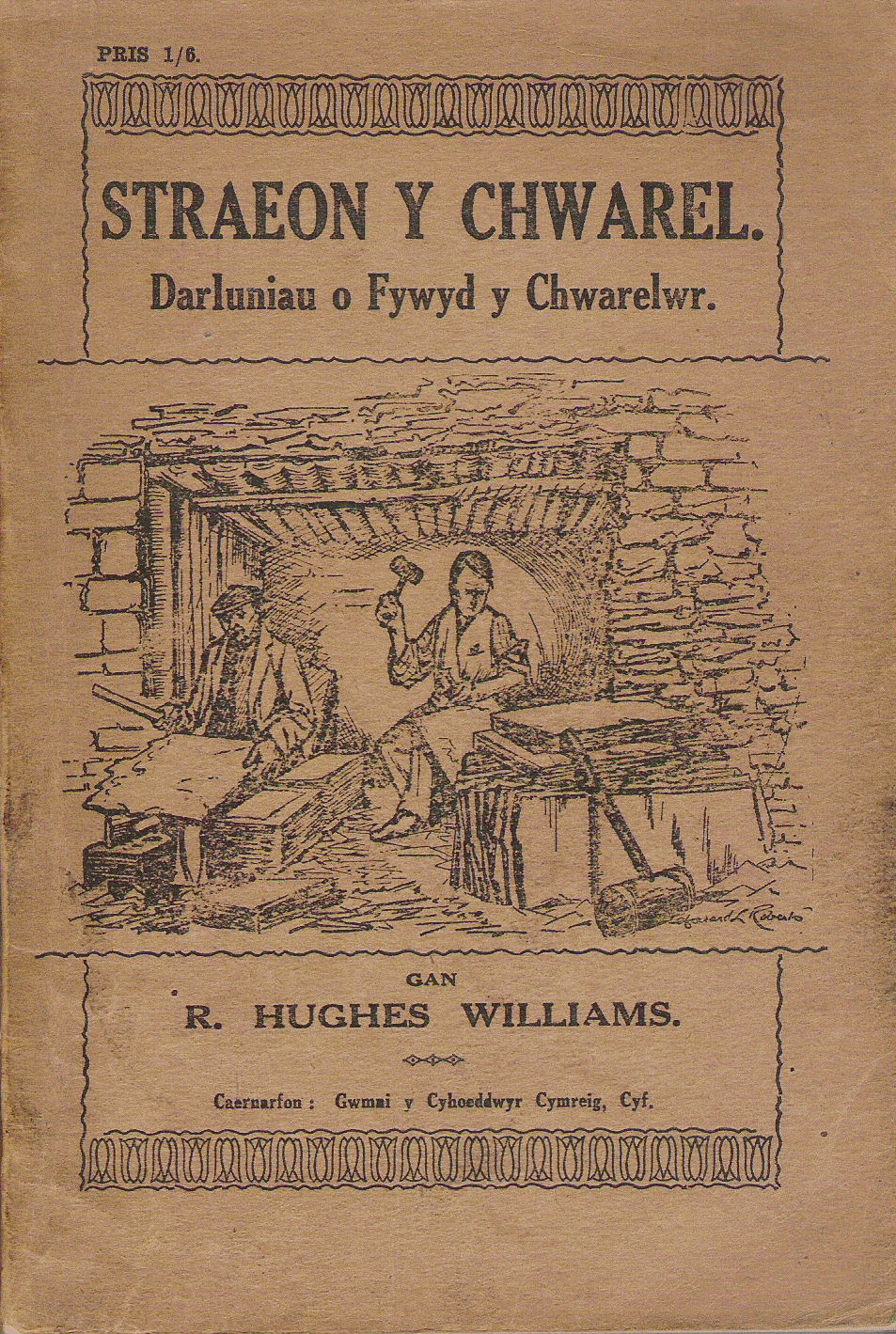 Front cover of Straeon y Chwarel, a collection of Welsh-language short stories about quarrymen by Richard Hughes Williams (Dic Tryfan) (Caernarfon, c. 1920).